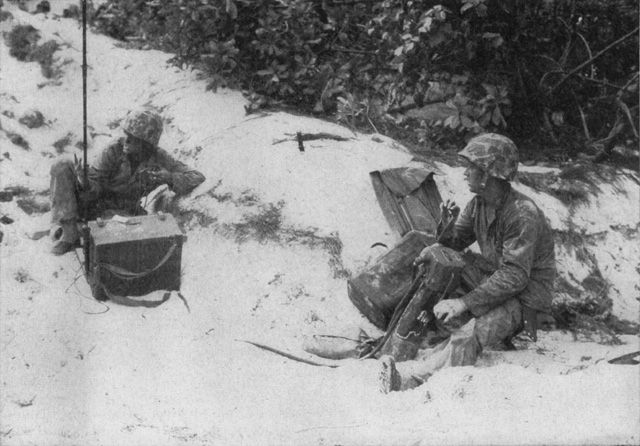 Members of the 1st JASCO operating an SCR 284 radio during the battle of Saipan, 1944